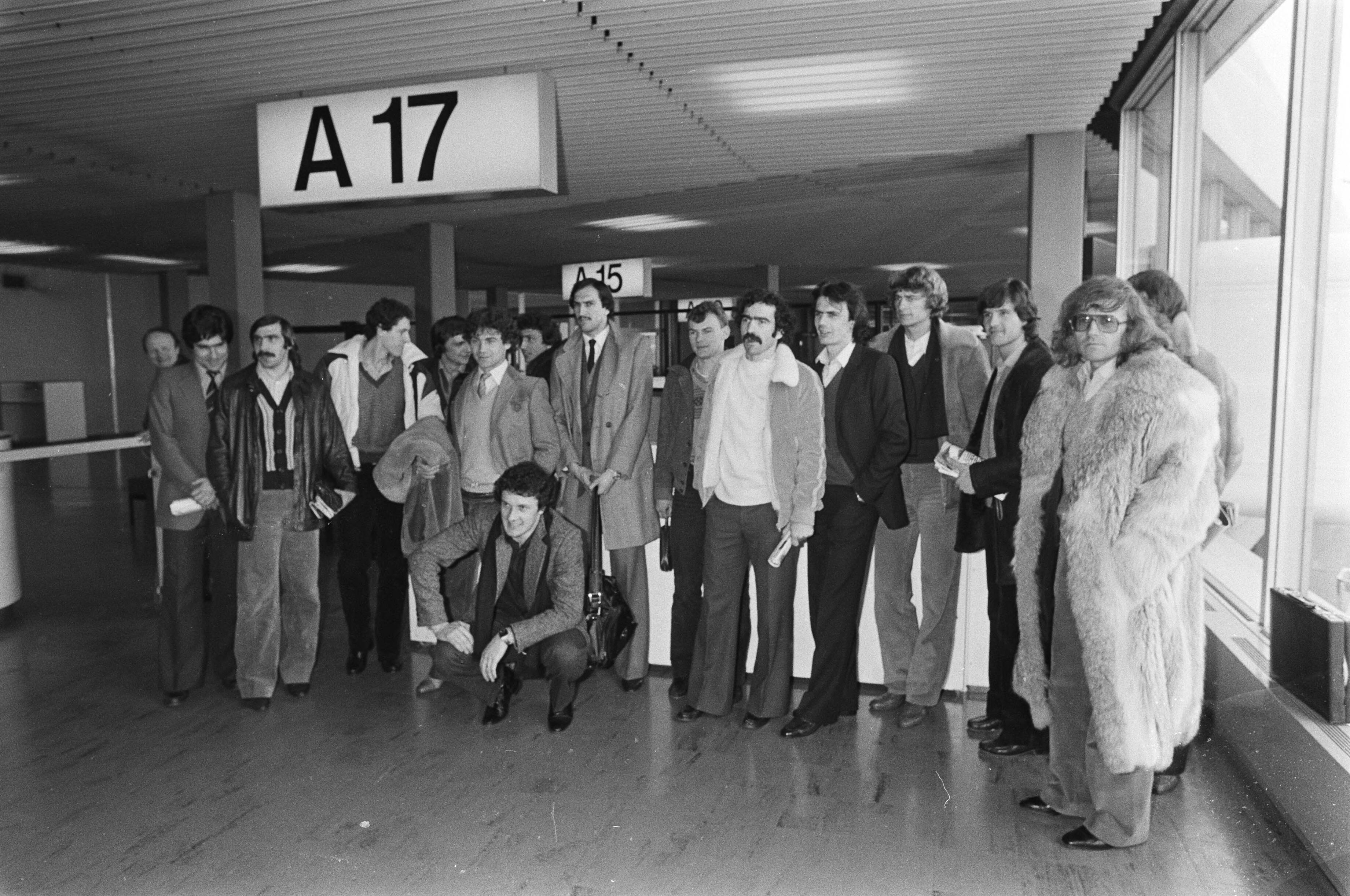 Players of RC Strasbourg